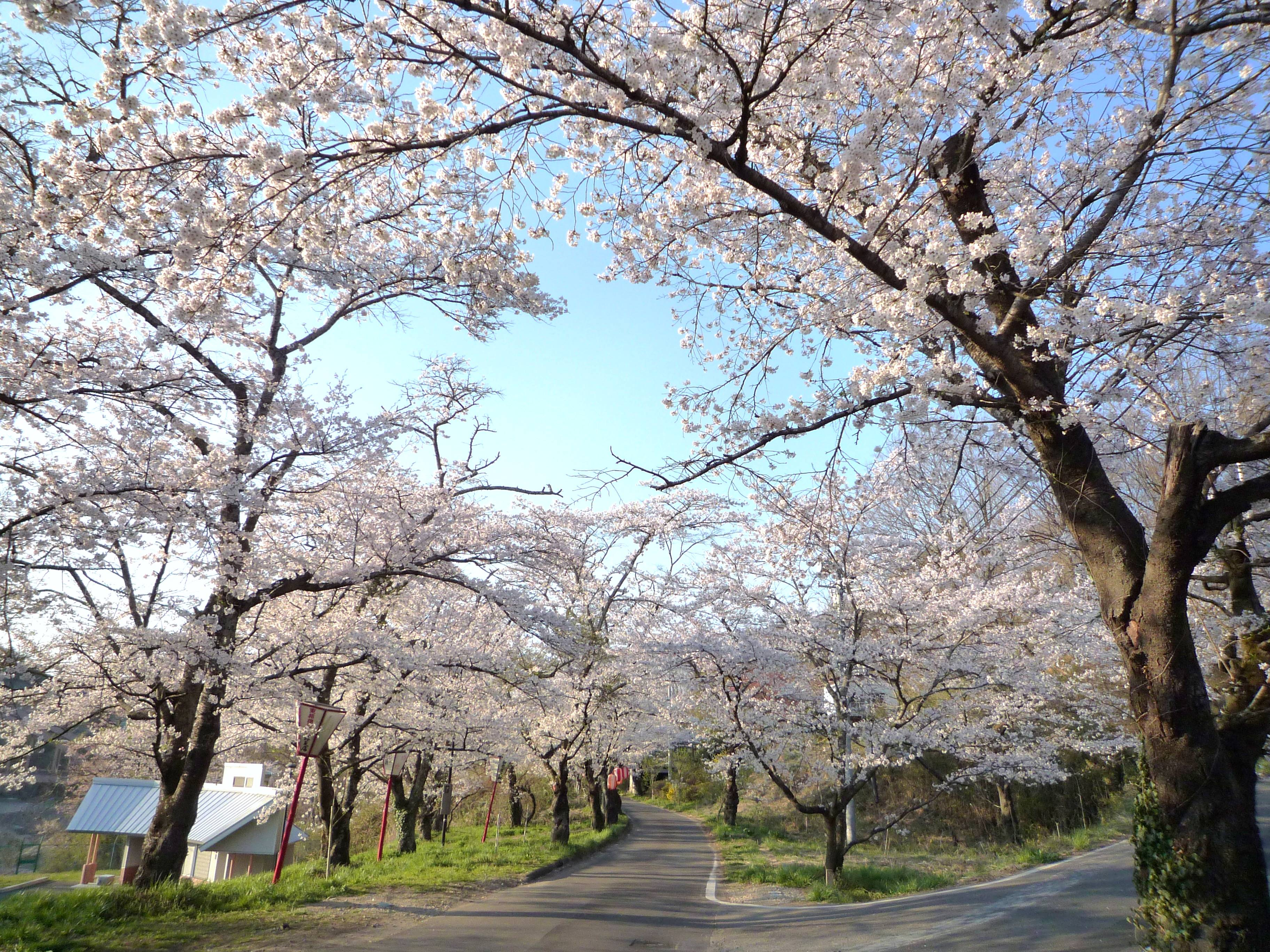 Iino Dam park.